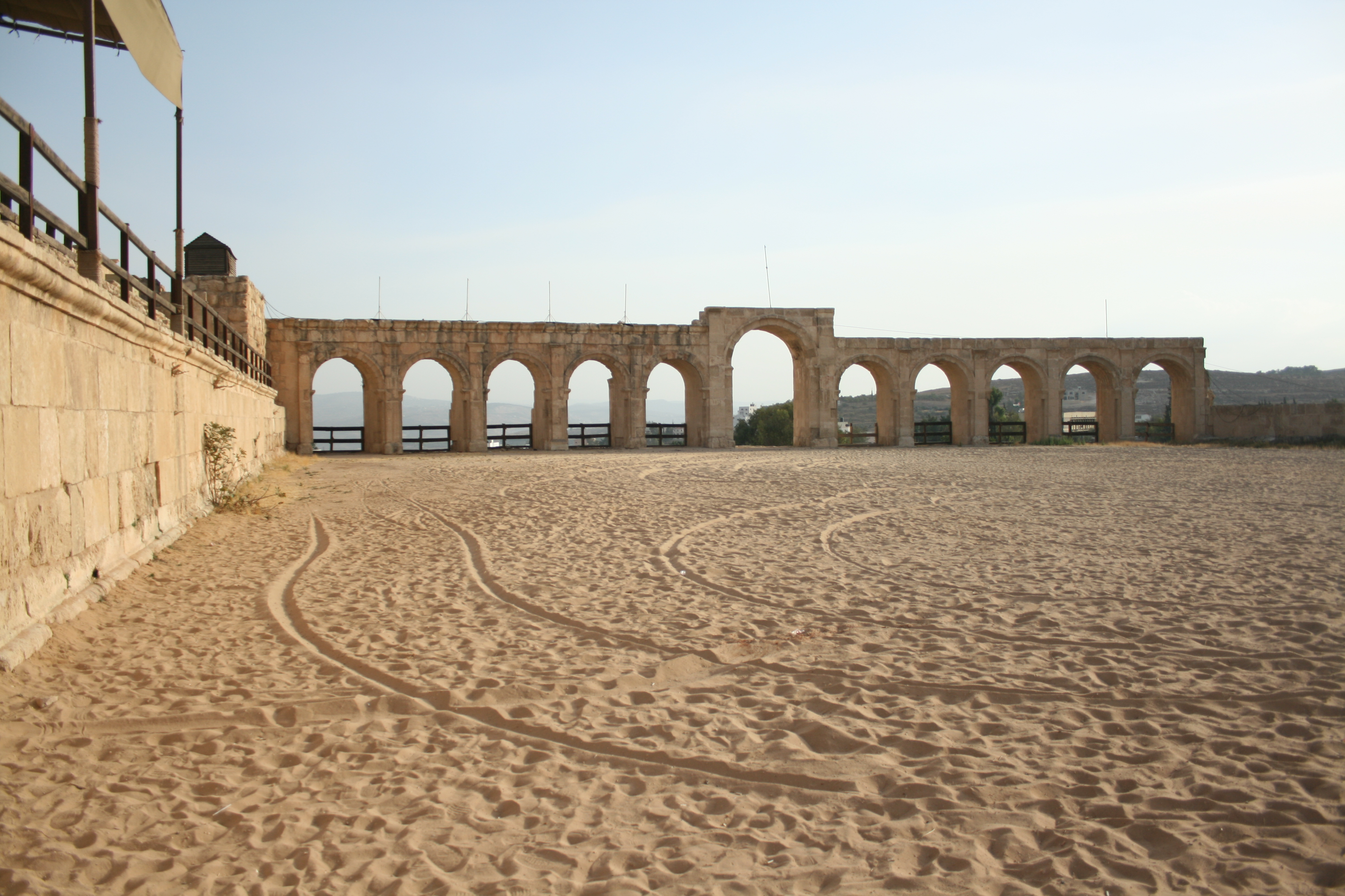 Hippodrome, Jerash, Jordan